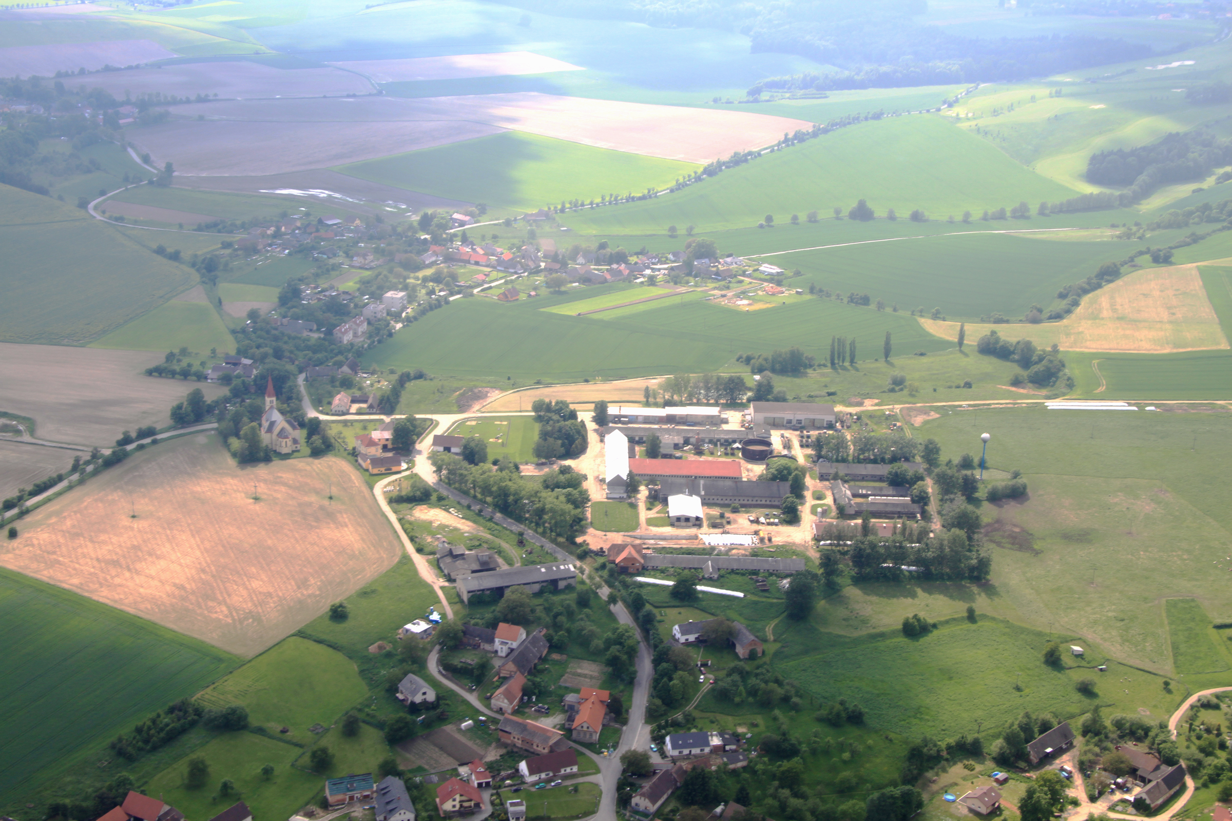 Village Zaloňov near of town Jaroměř from air, eastern Bohemia, Czech Republic